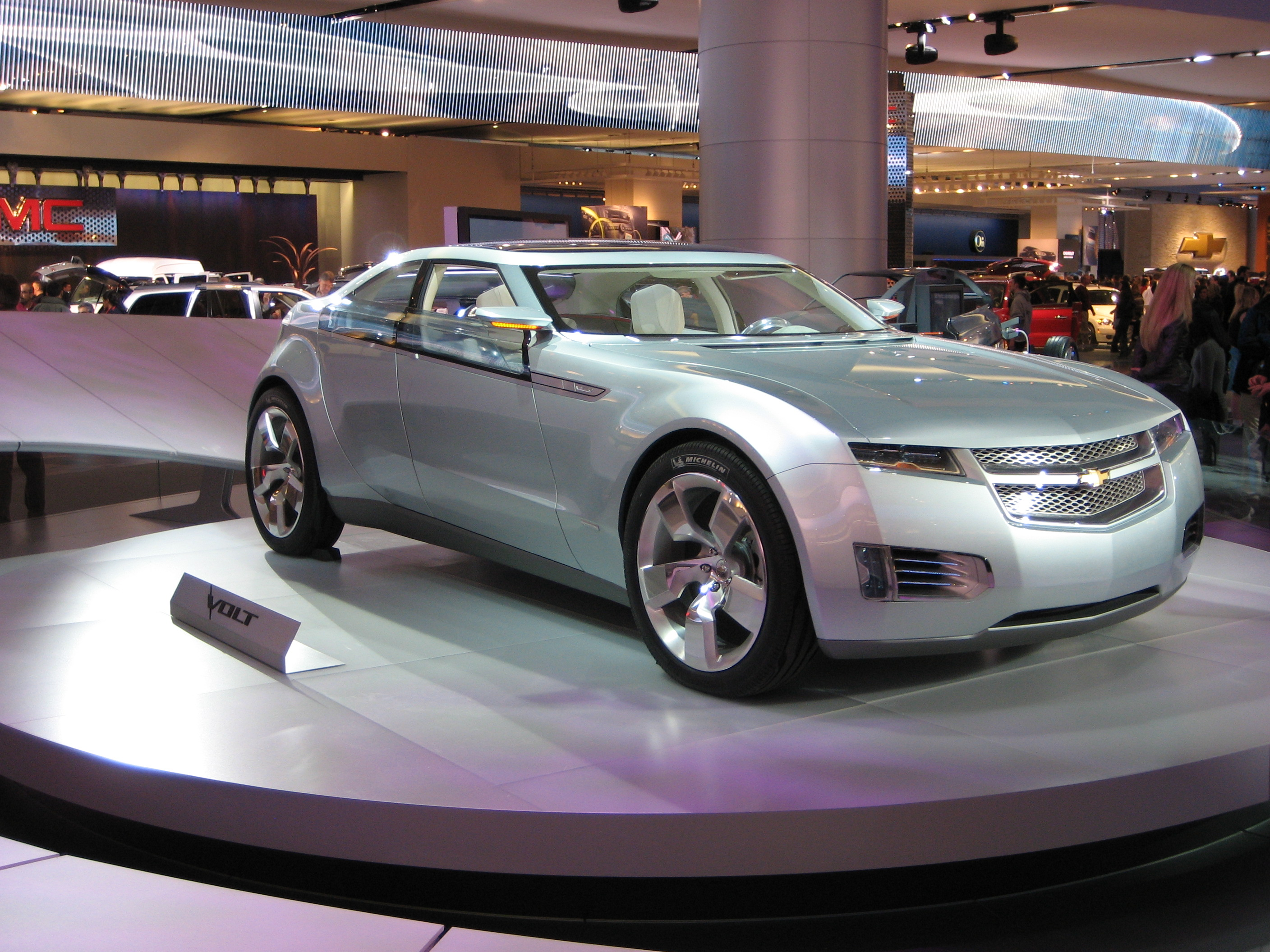 Chevy Volt Concept exhibited at the 2007 North American International Auto Show, Detroit, Michigan